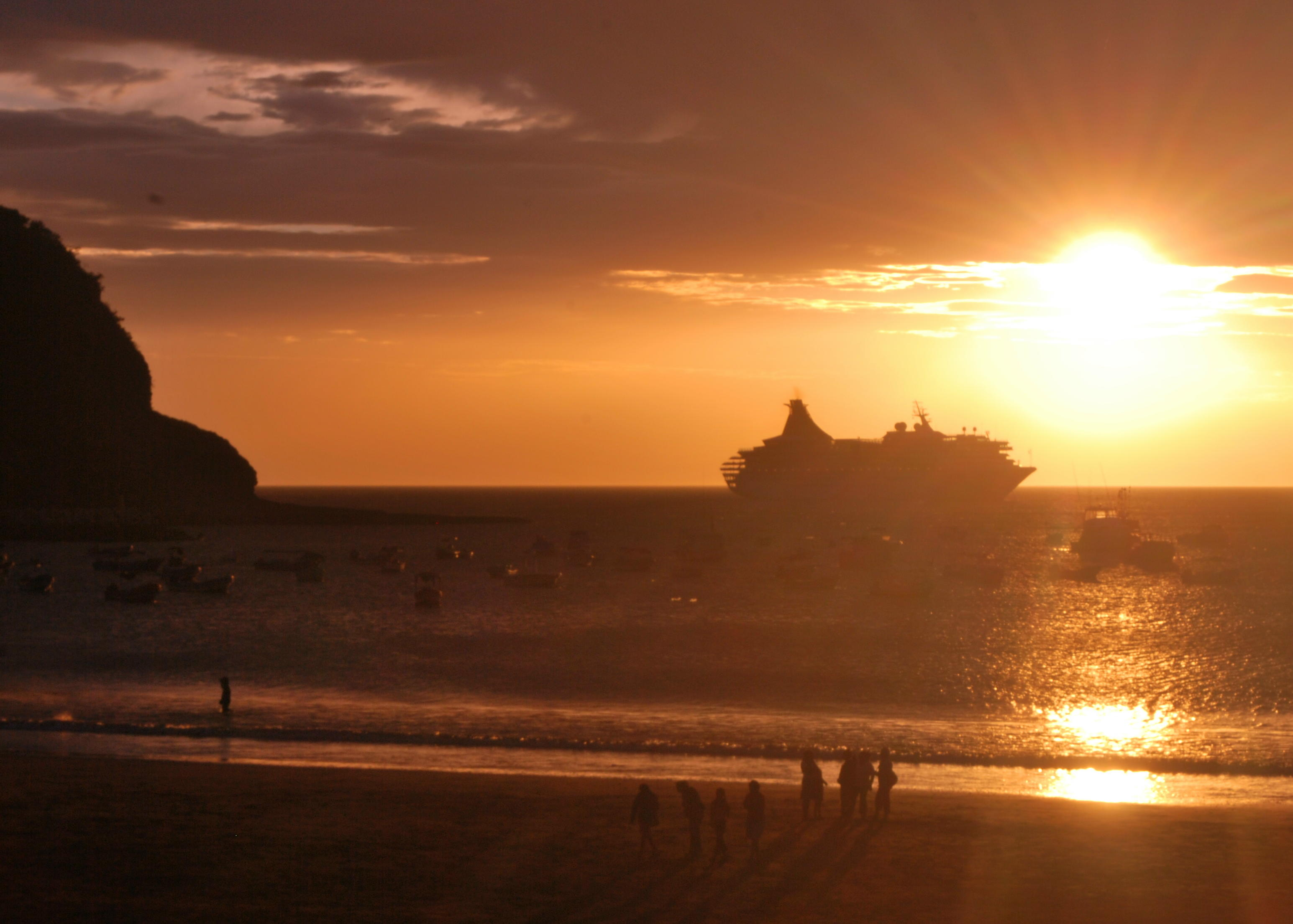 Sunset in San Juan del Sur, Nicaragua. Cruiseship.